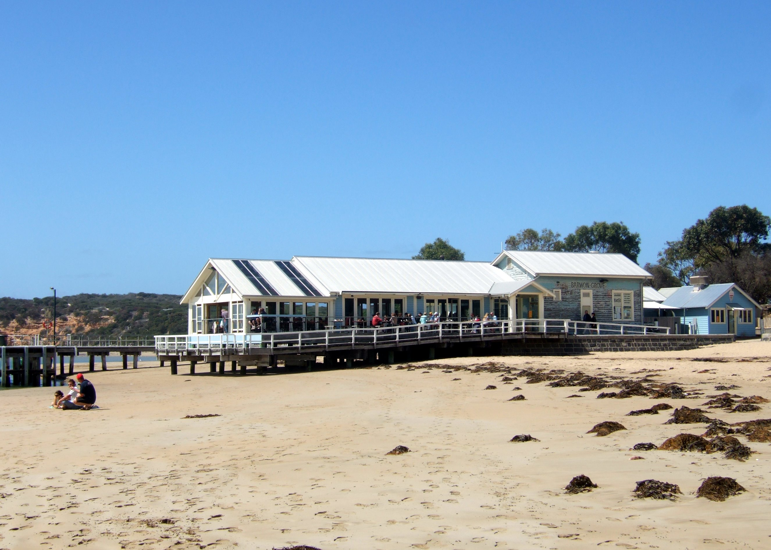 The iconic "Diver Dan" boatshed in Barwon Heads, Victoria. To its left is a new restaurant. Taken by Stevage.